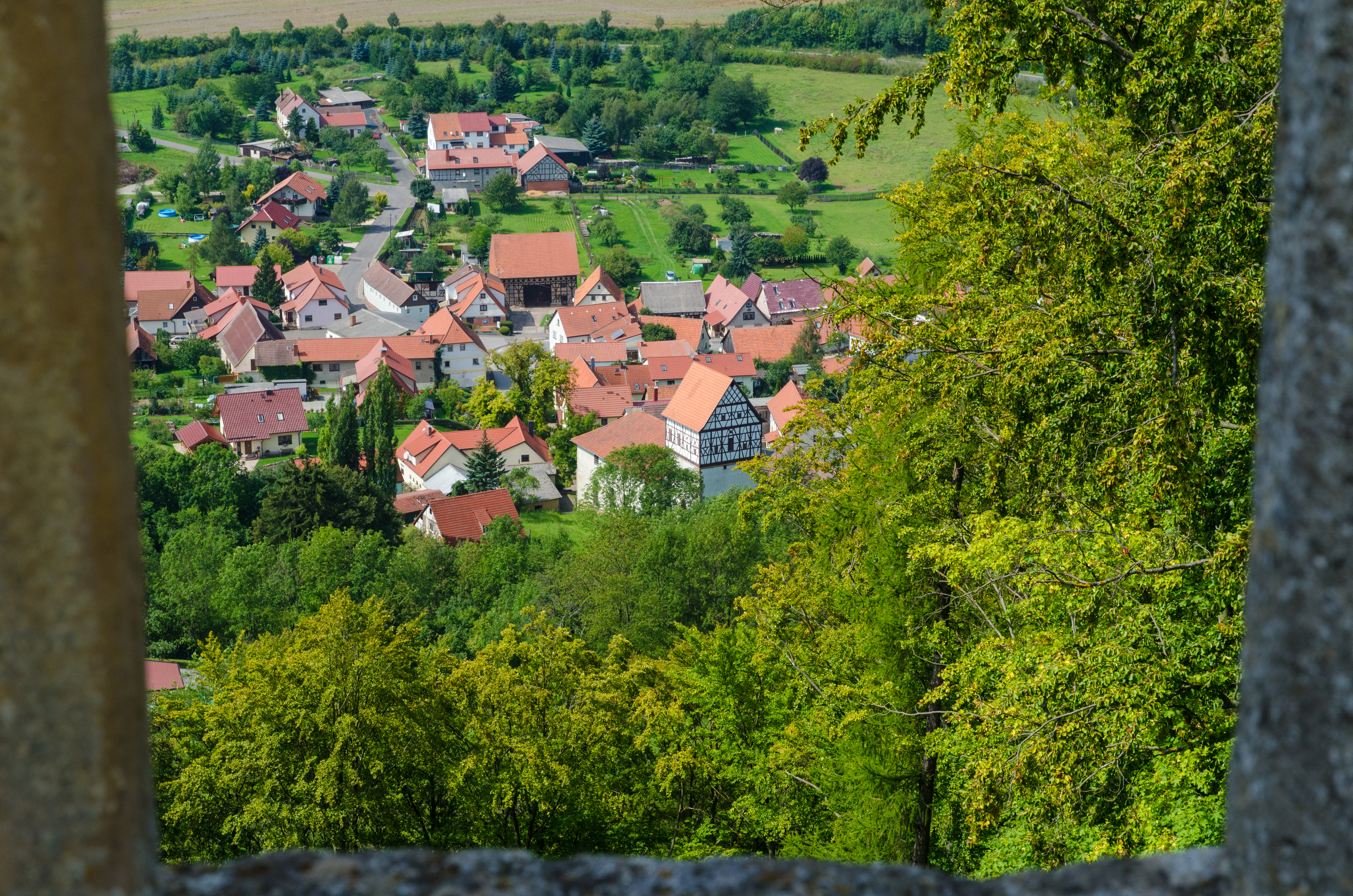 View from castle ruin Burgruine Henneberg, district Schmalkalden-Meiningen, Thuringia, Germany